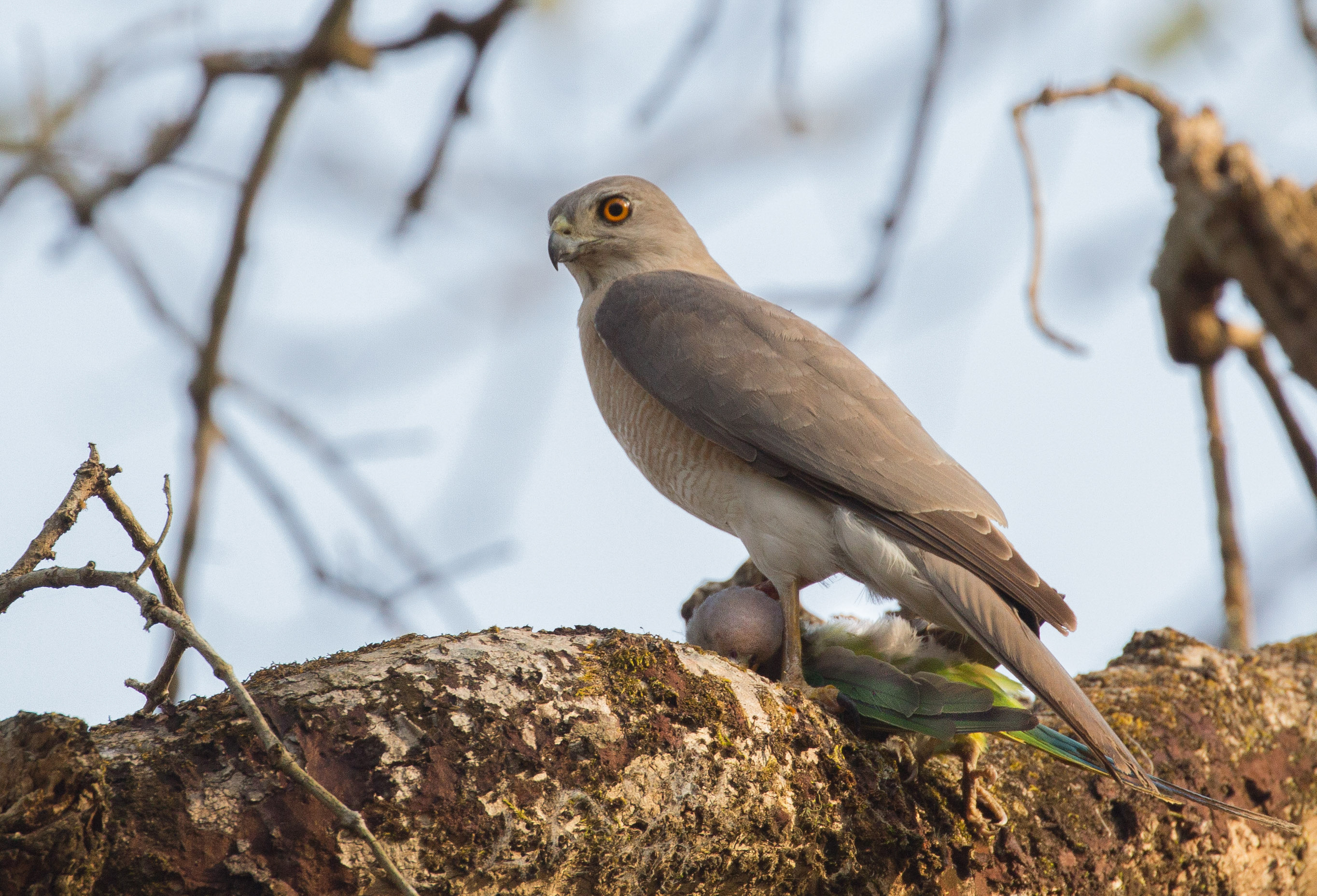 Birds of Nepal 2019